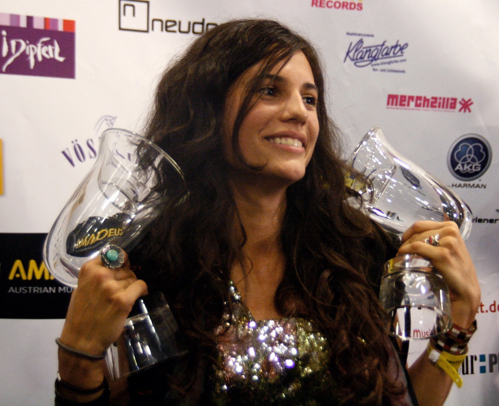 Anna F. at the Amadeus Austrian Music Award 2010 (Wiener Stadthalle, Vienna, Austria)